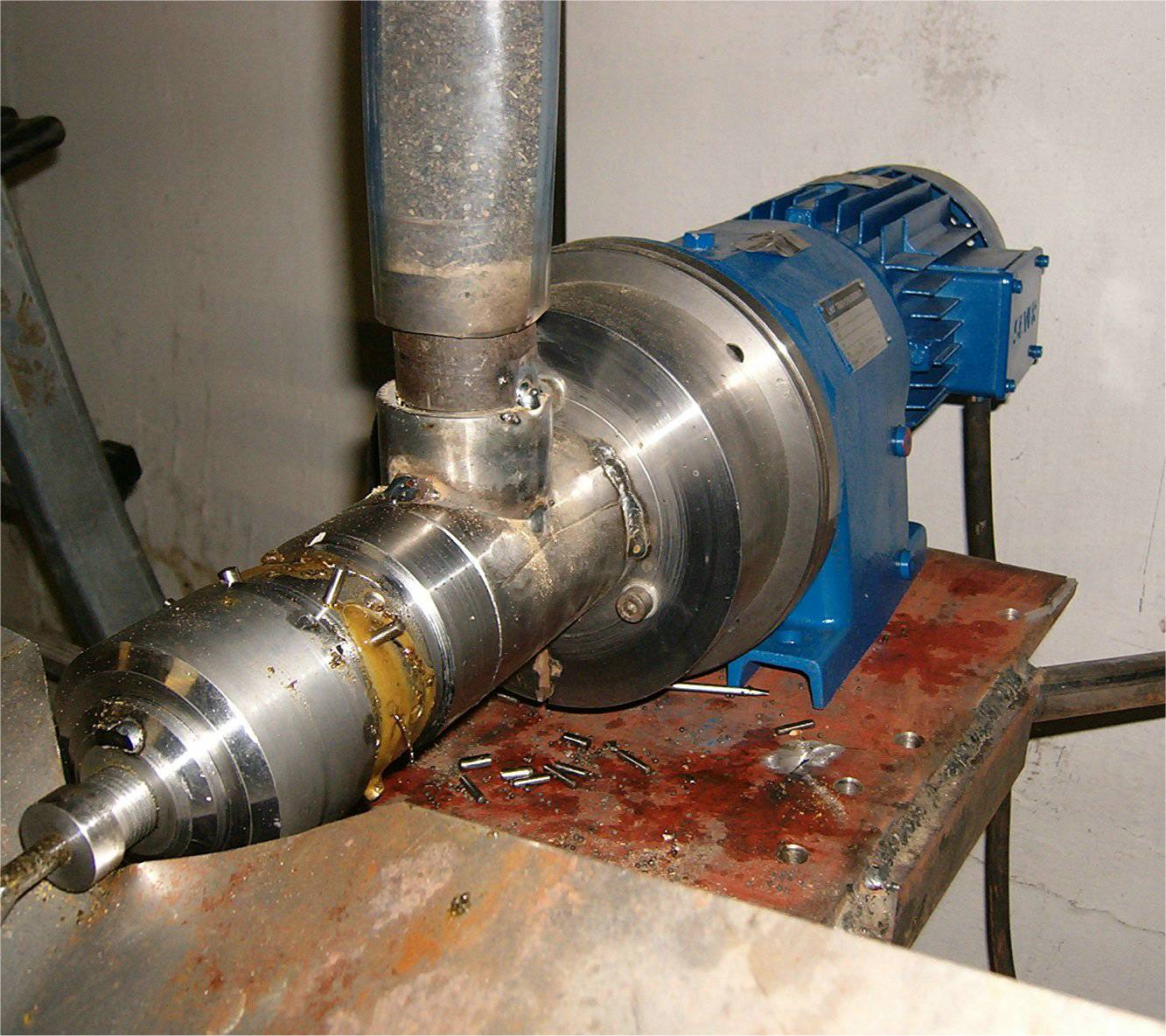 Rape seed oil press (prototype)